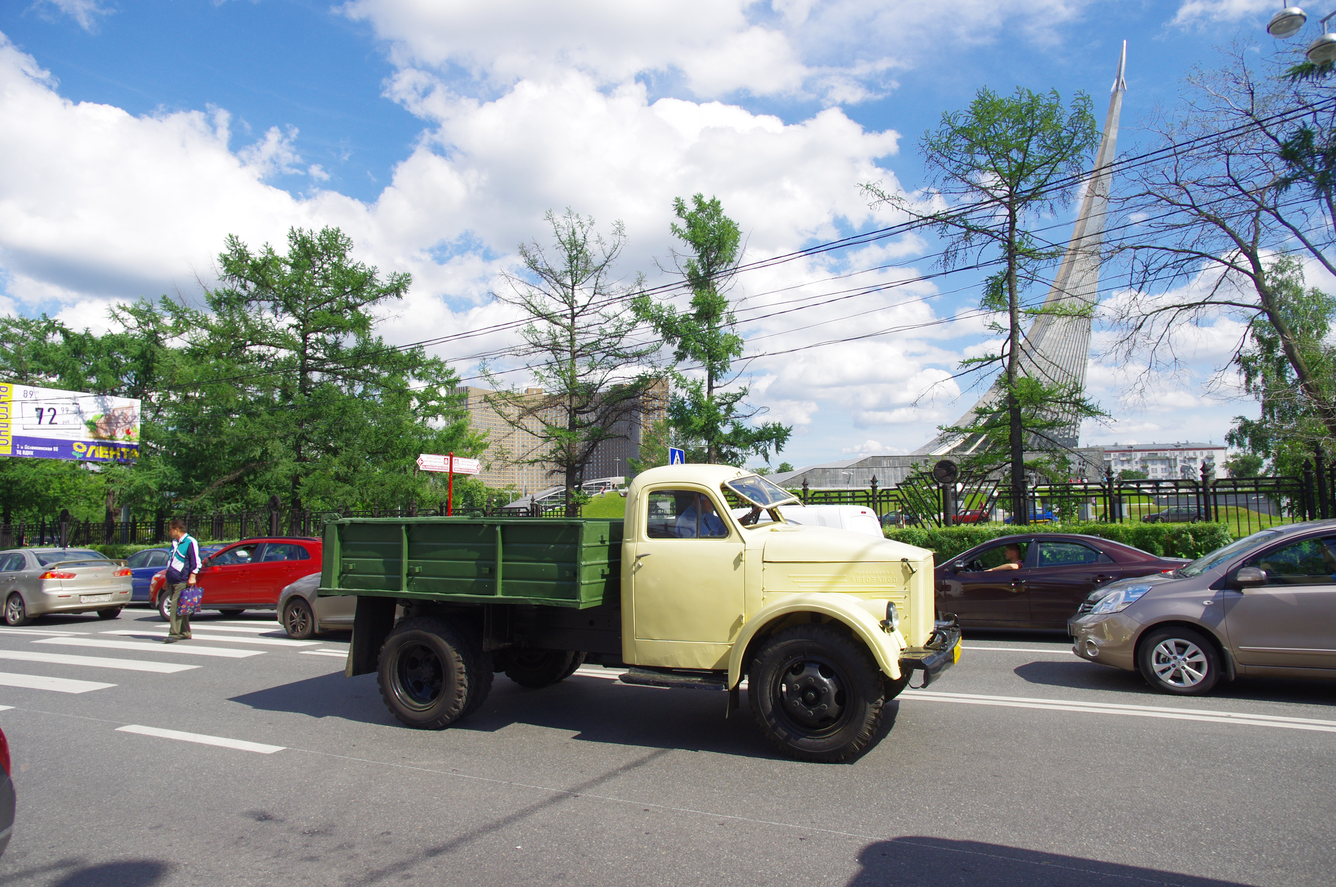 GAZ-93 dump truck on GAZ-51 base